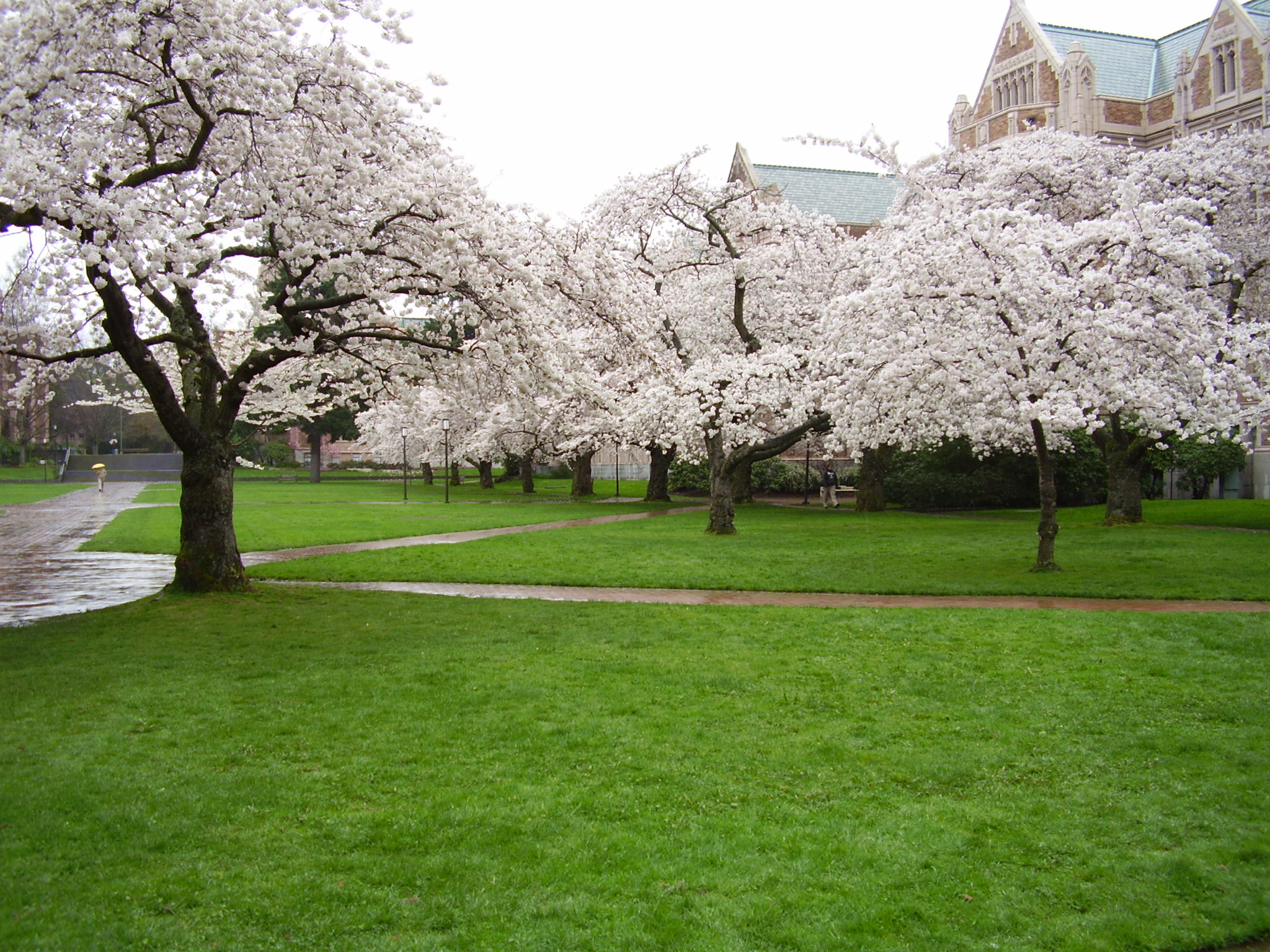 The Quad, University of Washington, Seattle